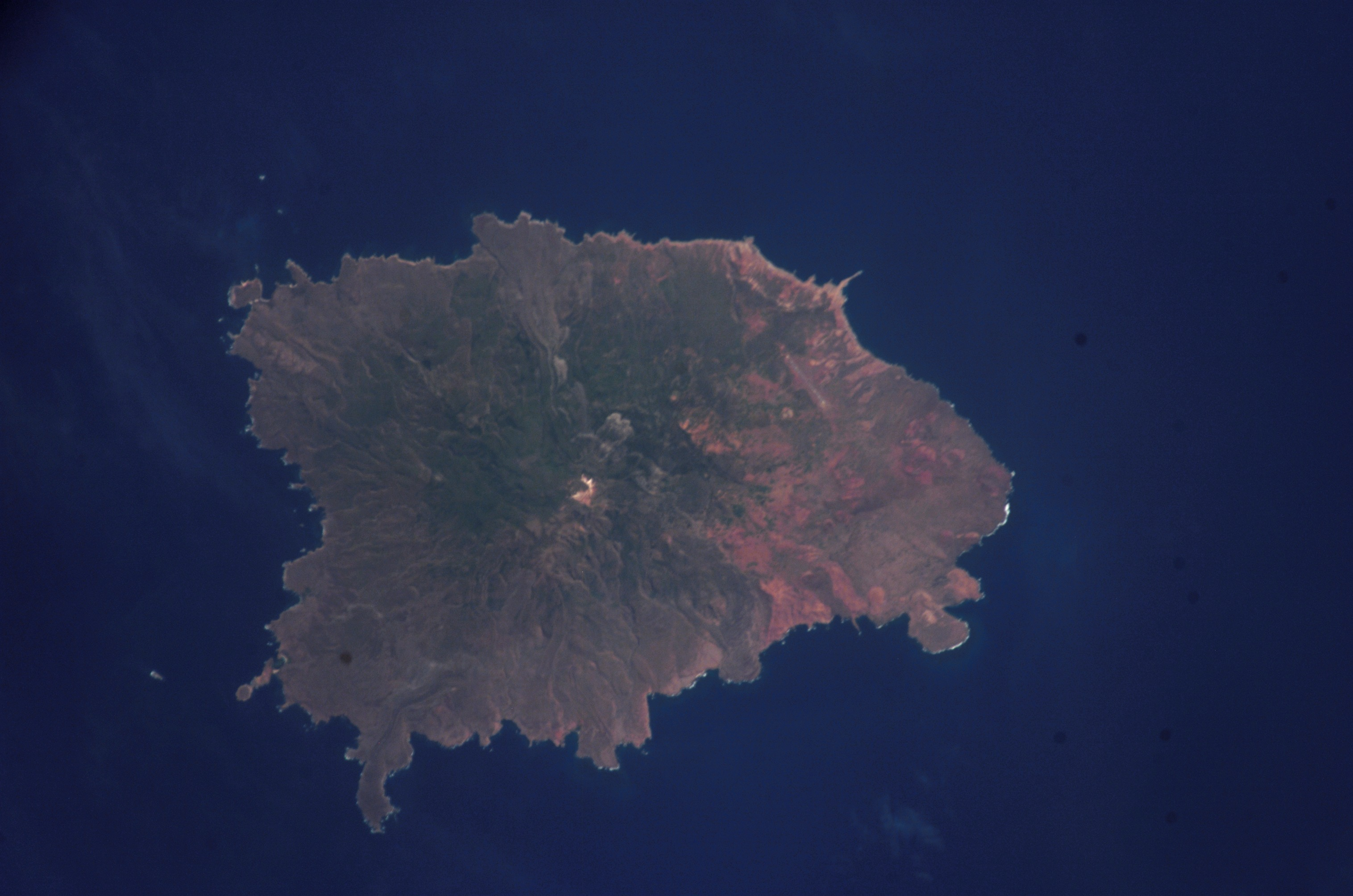 NASA Astronaut Image of Socorro Island (Mexico) in the Pacific Ocean